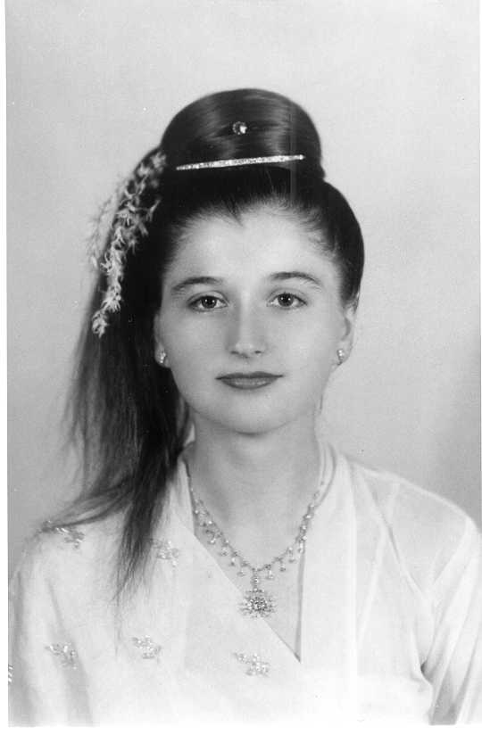 Inge Eberhard is a Mahadevi of Hsipaw one of the most important Shan States.